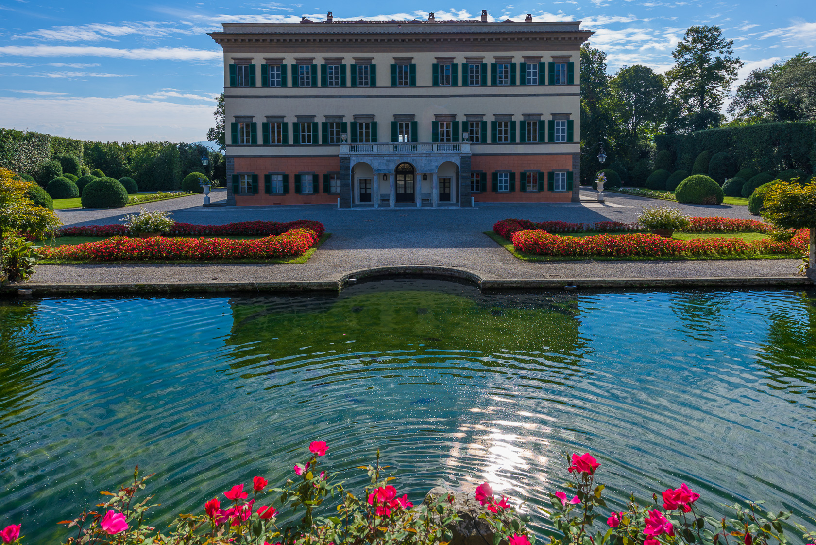 Villa Reale from the Water Theatre